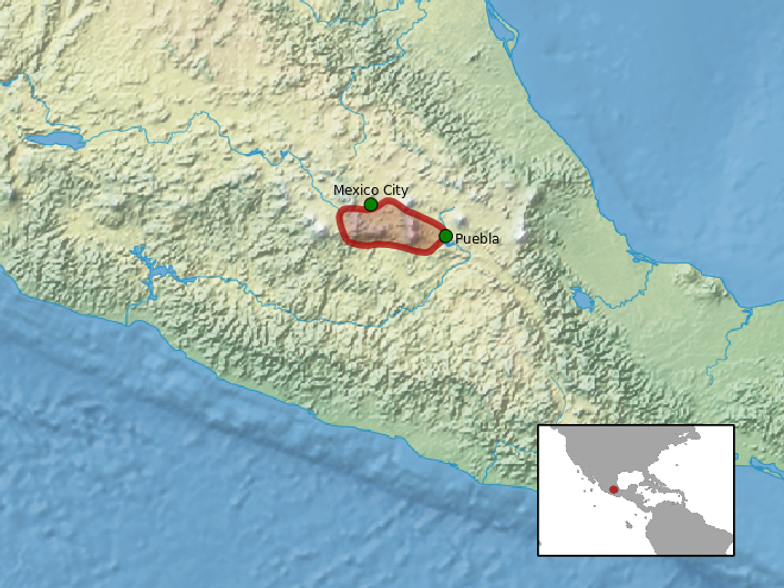 Range of Cratogeomys merriami Merriam's Pocket Gopher